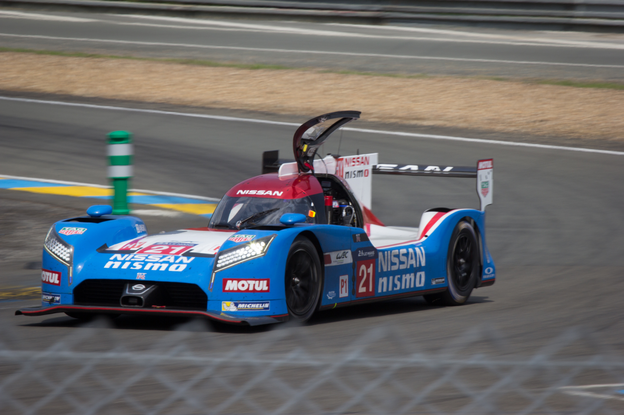 Nissan Motorsports - Nissan GT-R LM Nismo #21